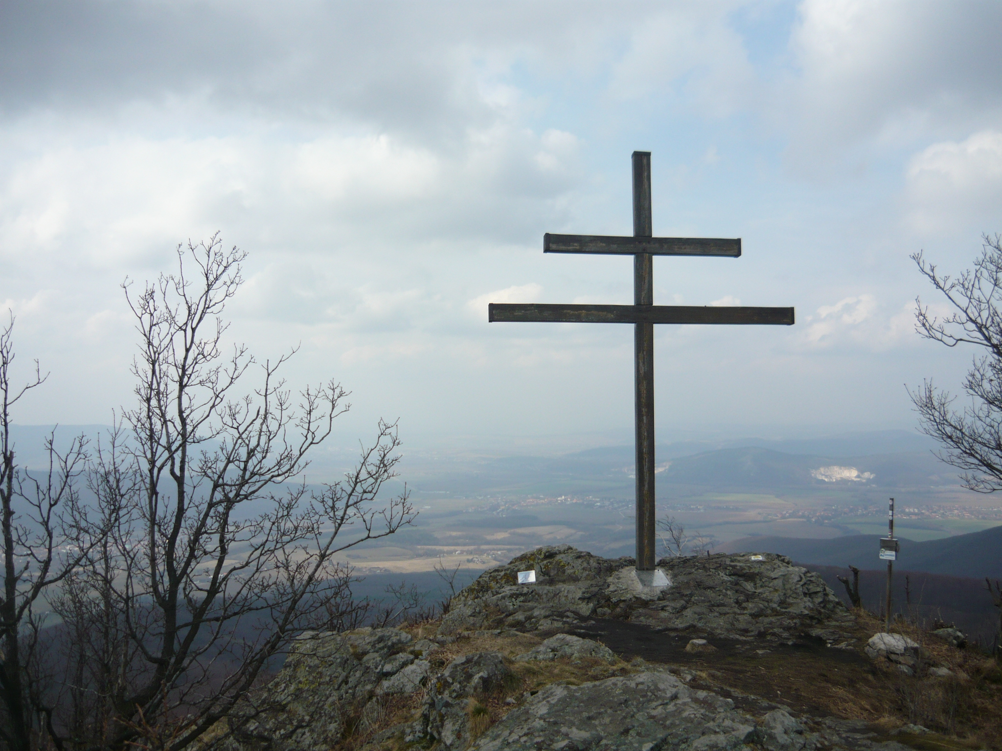 Summit cross on Mount Žarnov (Vtáčnik mountains, Slovakia).